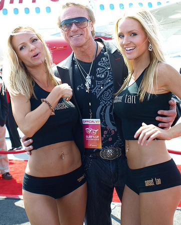 Kenndra Warren, Devin Haman, and Marsha Warren at the Virgin America OC Launch.